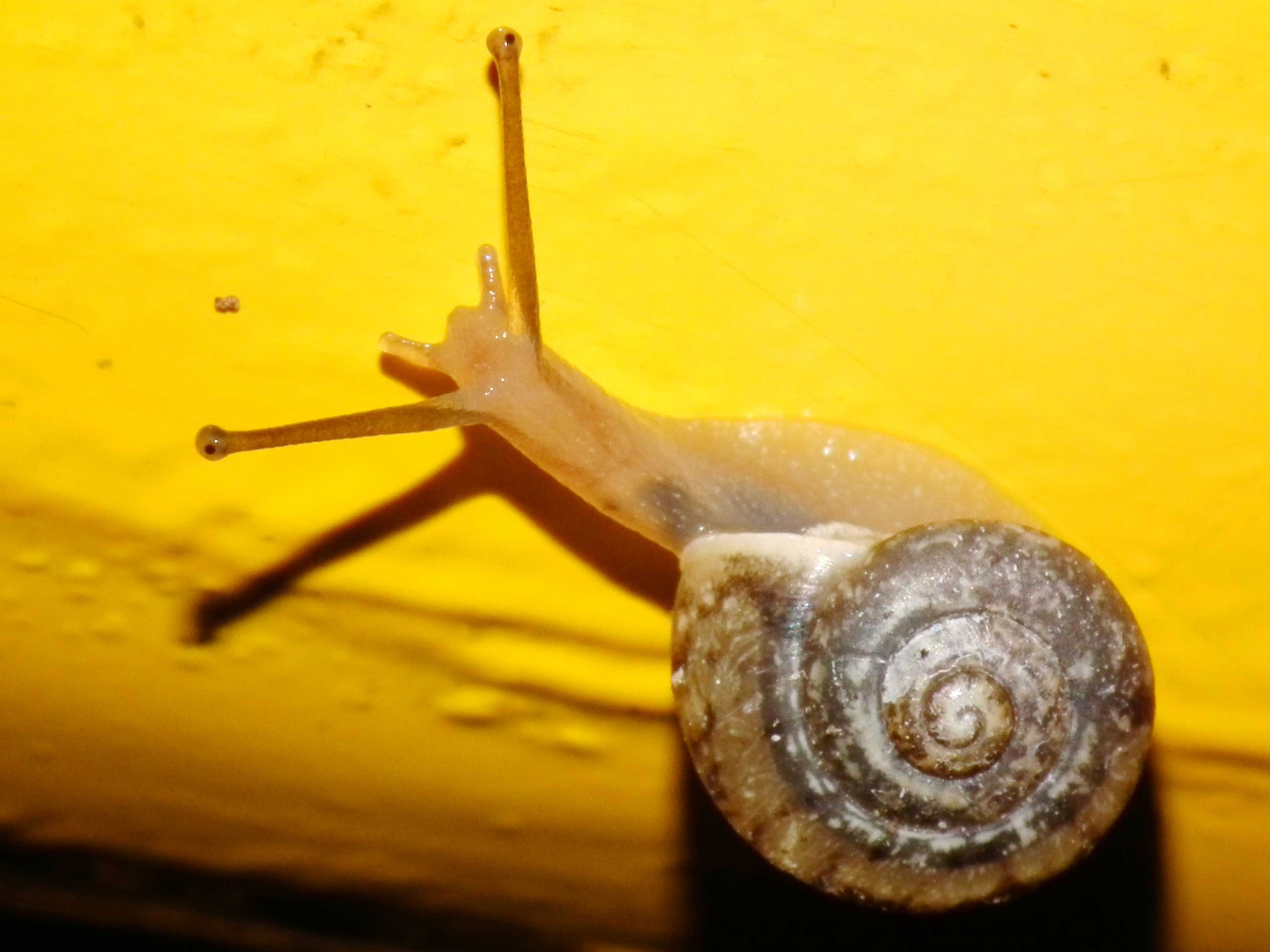 an unidentified gastropod from Hong Kong. Locality: Fo Tan, Hong Kong.